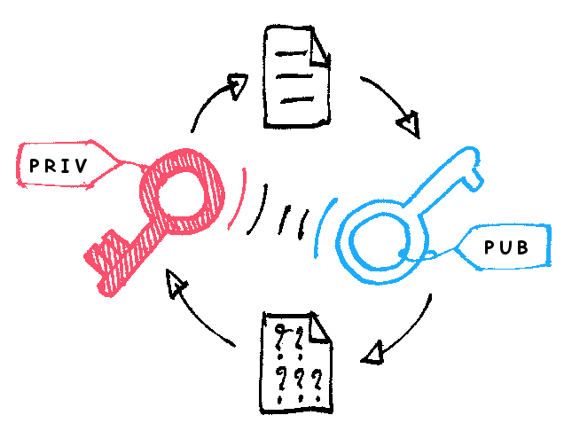 The light, public key encrypts the plaintext. The dark, private key decrypts the ciphertext. The keys are linked together with a magnetic field.